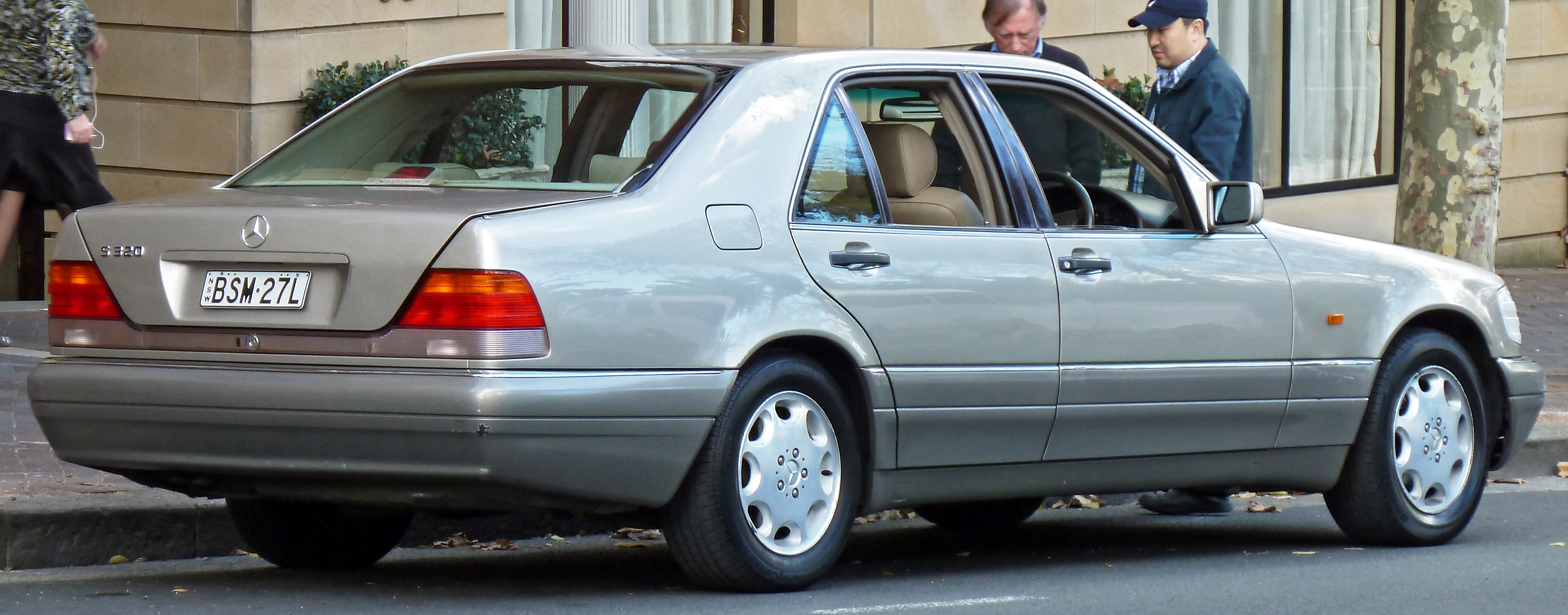 1994 Mercedes-Benz S 320 (W 140) sedan. Photographed on Macquarie Street, Sydney, New South Wales, Australia.